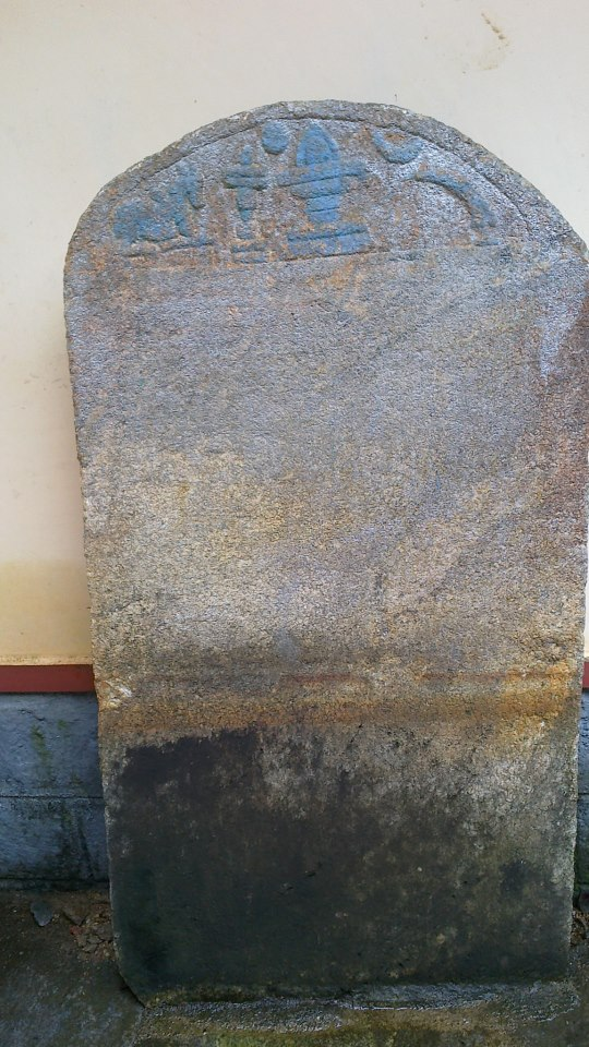 ಇತಿಹಾಸ ಸಾರುವ ಶಾಸನ